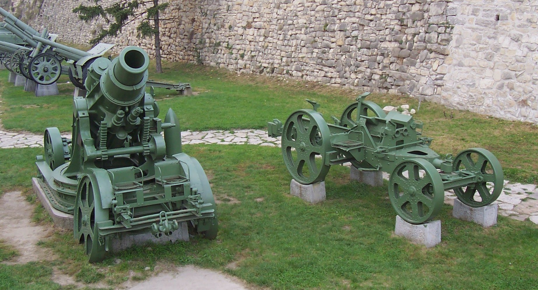 Škoda 305 mm Model 1911 cannon. Photograph © 2005 by Nikola Smolenski. Taken at the Belgrade Military Museum.